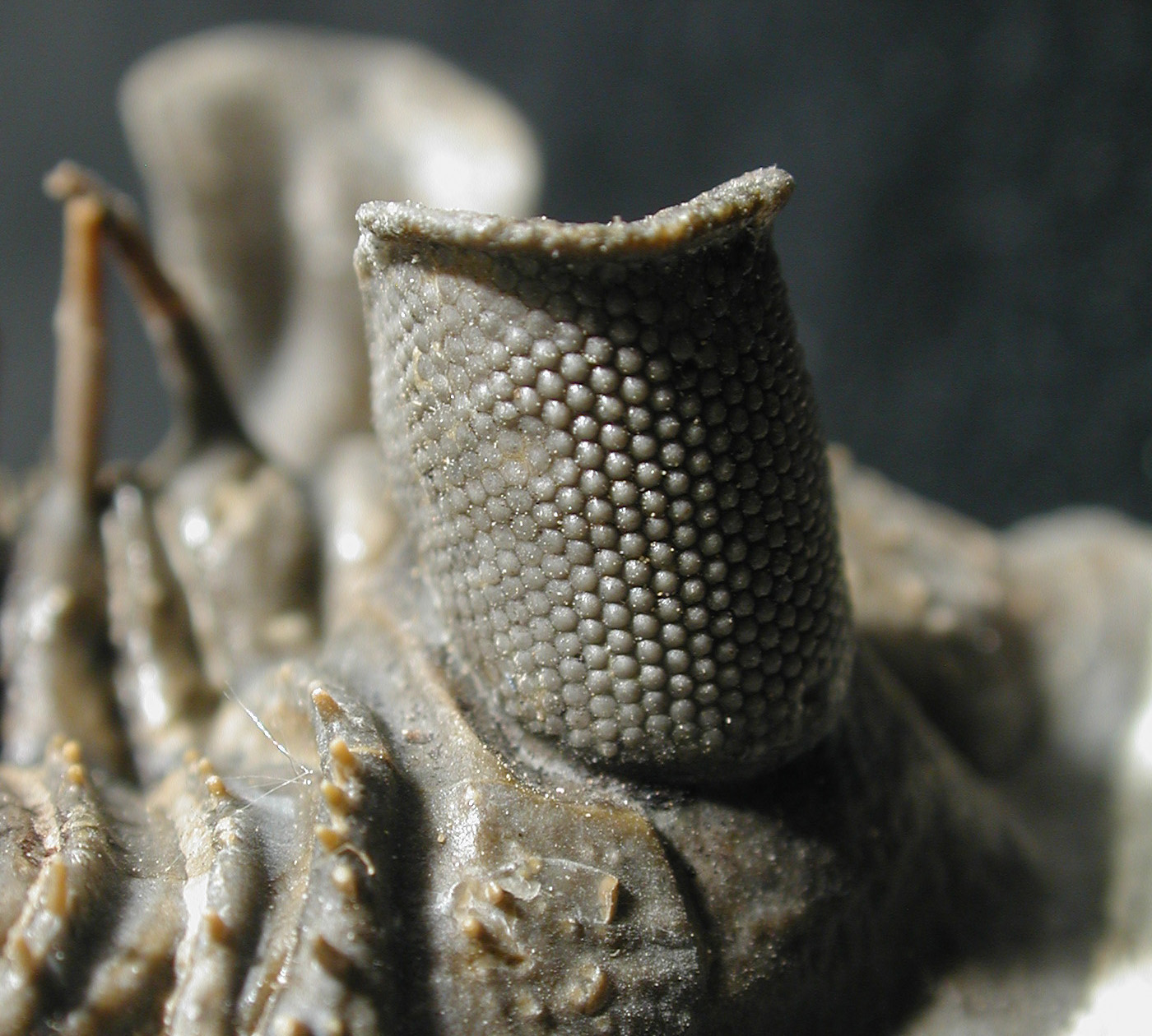 Erbernochile erbeni eye detail, Large compound eye with "eye-shade".